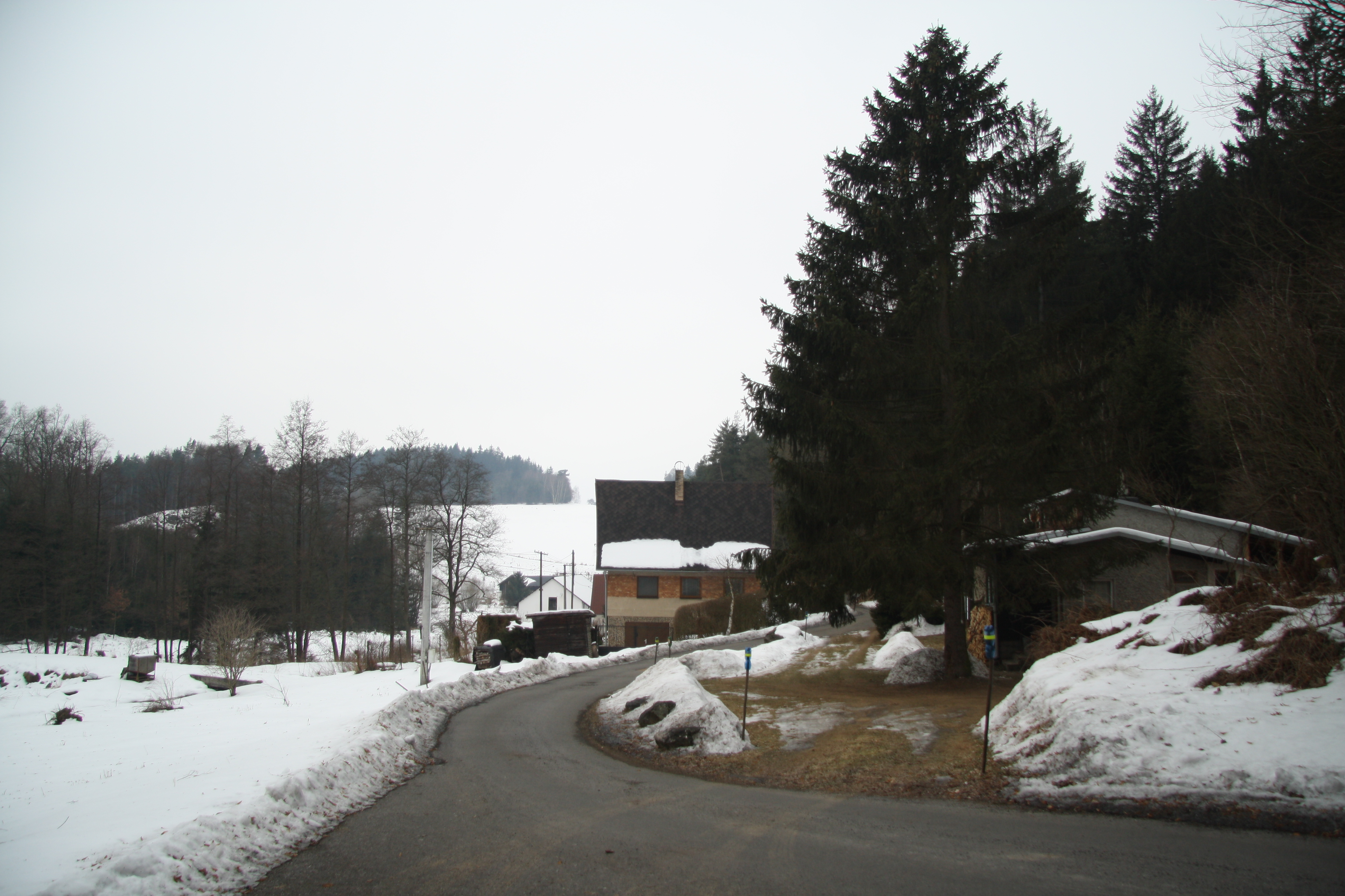 Center of Vlčí Hory, Staré Bříště, Pelhřimov District.